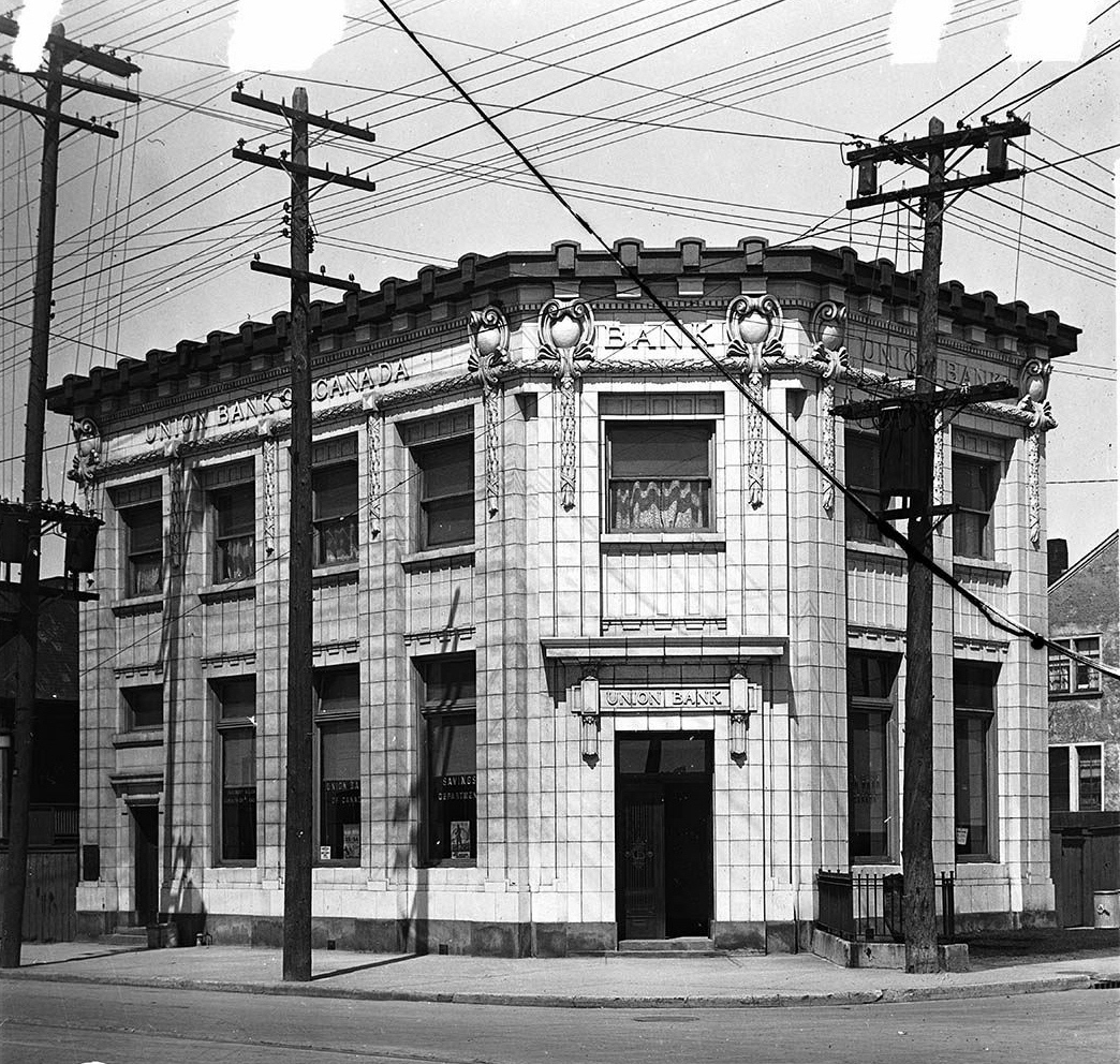 Union Bank on the northwest corner of Danforth and Pape Avenues. Shortly after completion of this branch, the Union Bank of Canada merged with the Royal Bank of Canada in 1925, and the building remains an RBC bank branch. Toronto, Canada.